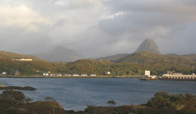 Canisp and Suilven above Loch Inver. Canisp (left) and the Caisteal Liath buttress of Suilven dominate the Lochinver skyline. This view is taken from the Baddidarach side of Loch Inver. The building on the hillside on the left is a modern hotel